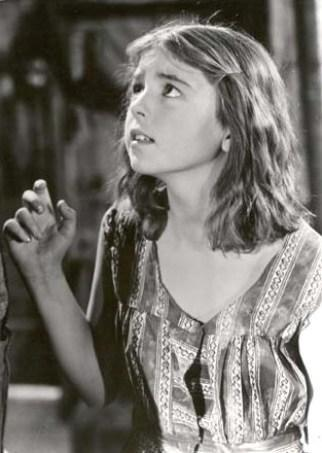 Shirley Mills (as Jennie Colton) from Child Bride still (dressed)